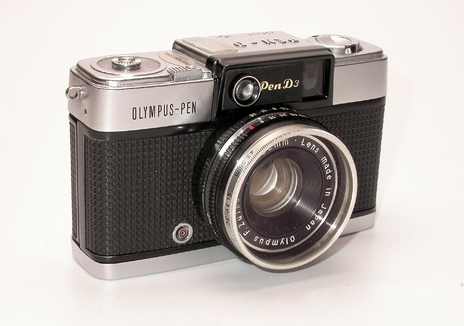 One of the range of great Olympus half-frame cameras.